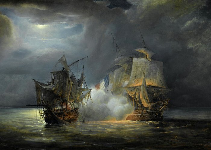 Vénus capturing HMS Ceylon